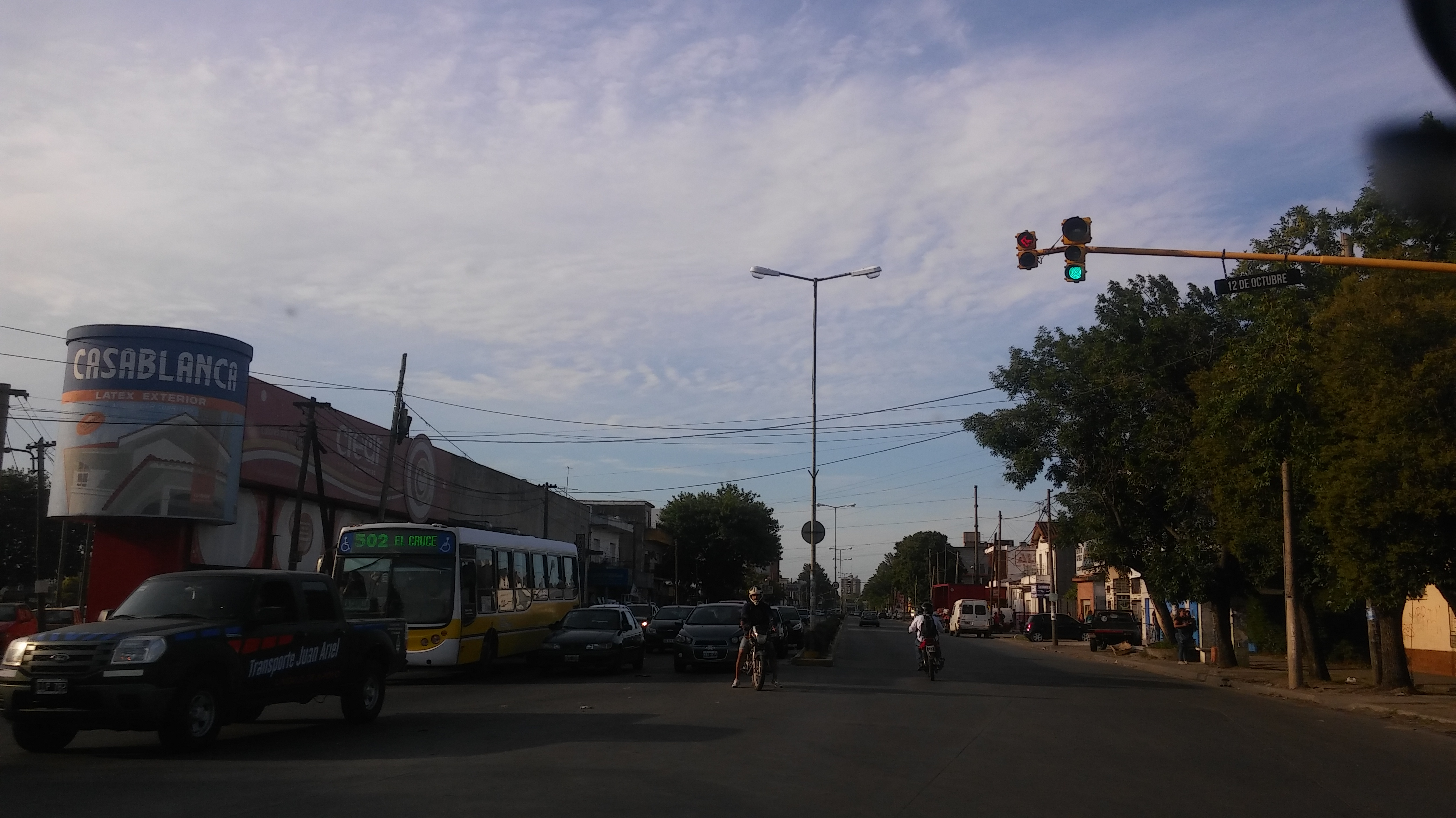 Photo of Eva Perón Avenue (part of RP 53) in the intersection with Belgium / October 12th Avenue